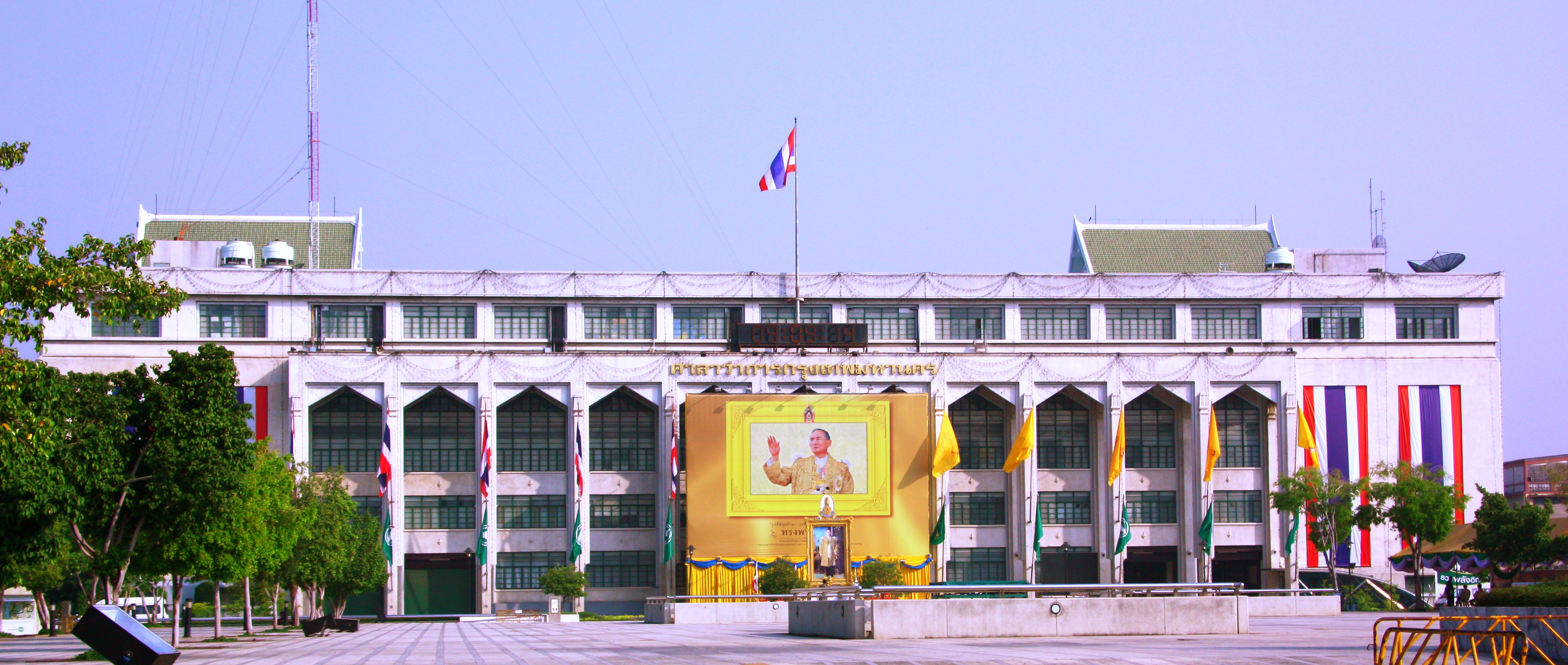 Bangkok City Hall late 2008